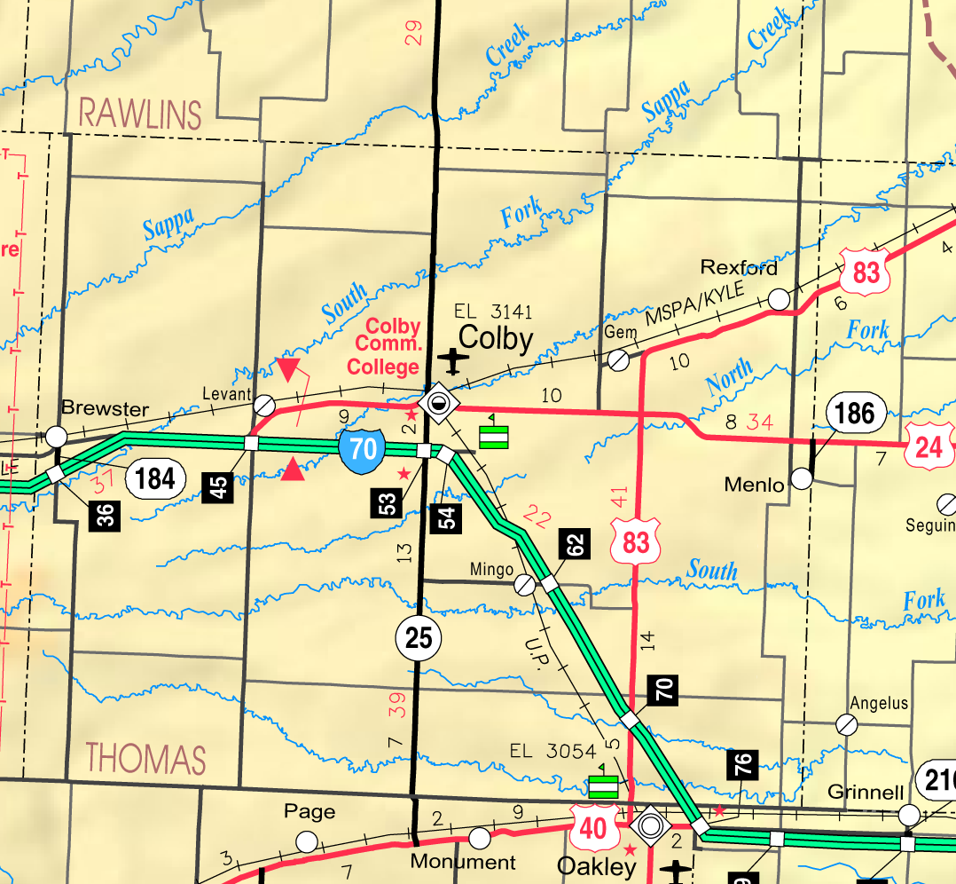 This map of Thomas County, Kansas, USA, is copied at a resolution of 300 pixels/inch from the original PDF file.